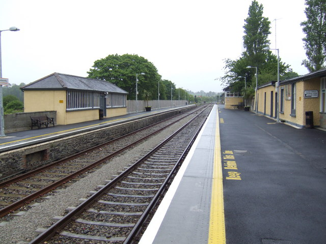 Enniscorthy railway station